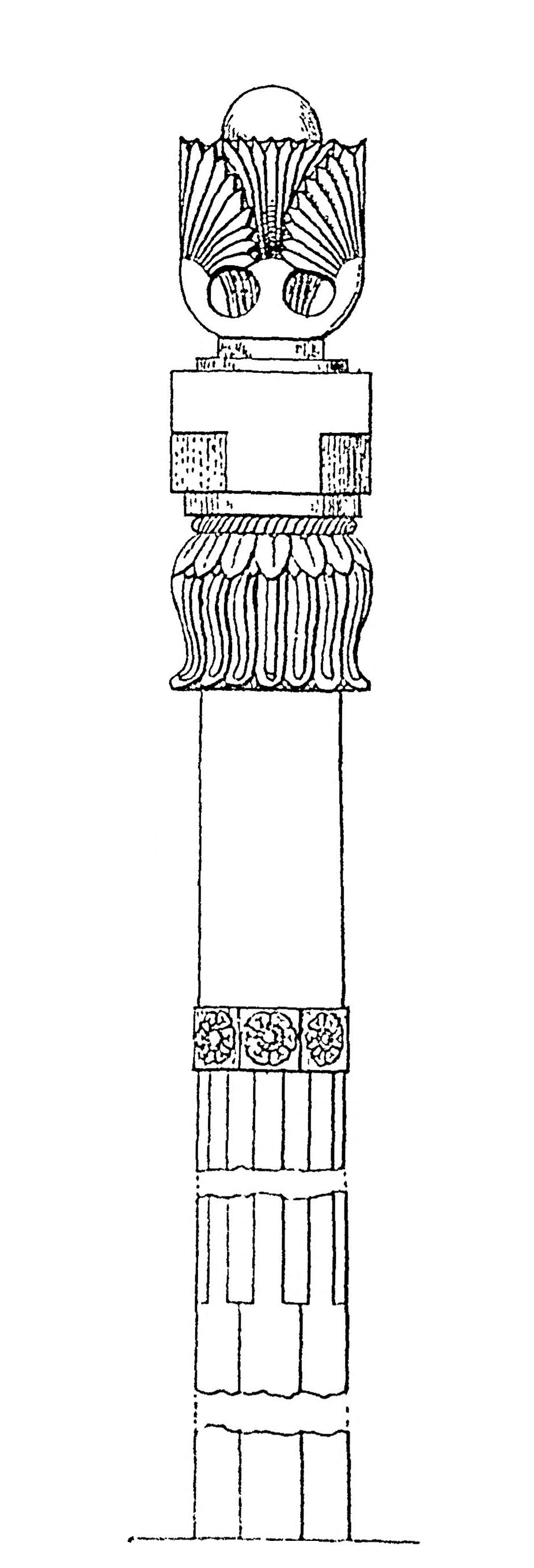 Heliodorus pillar Cunningham reconstruction in 1874-1875